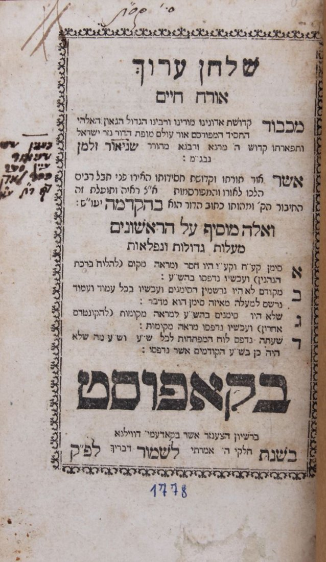 Shulchan Aruch ba’al HaTanya Orech Haim, from 1-215, Kapust 1816 (according to the title page), first edition.